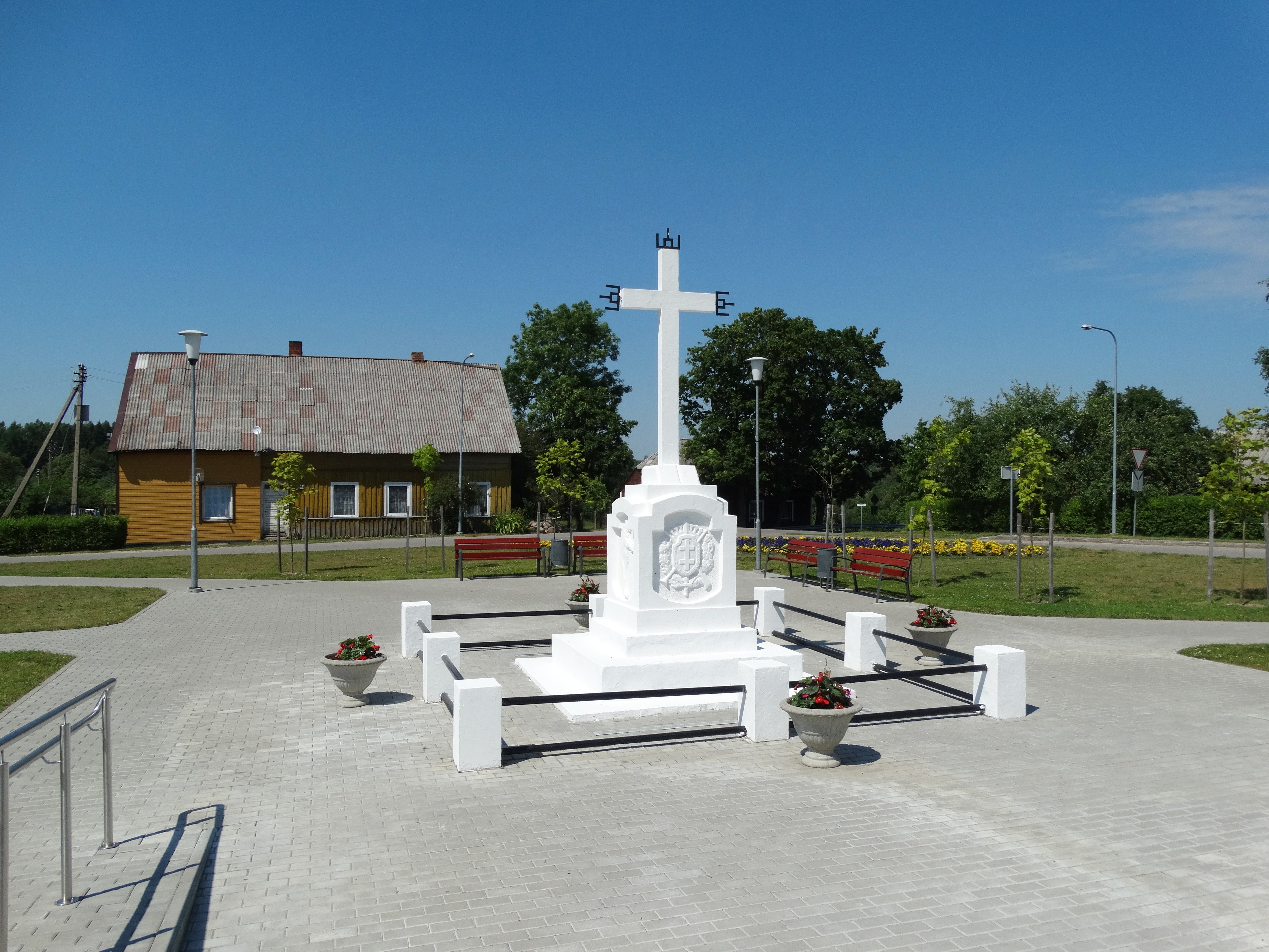 Square in Medingėnai, Rietavas Municipality, Lithuania